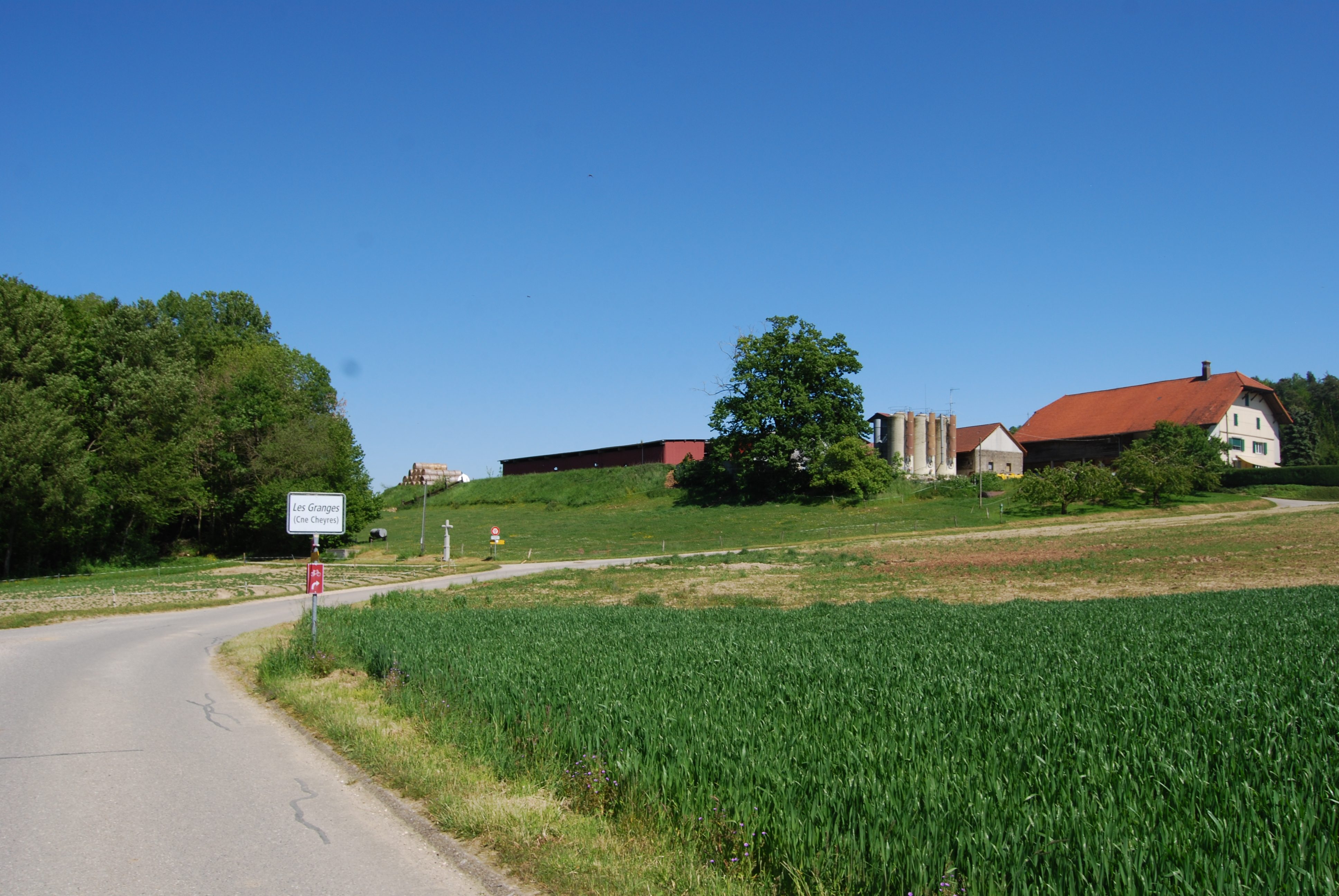 Les Granges, municipality Cheyres, canton of Fribourg, Switzerland